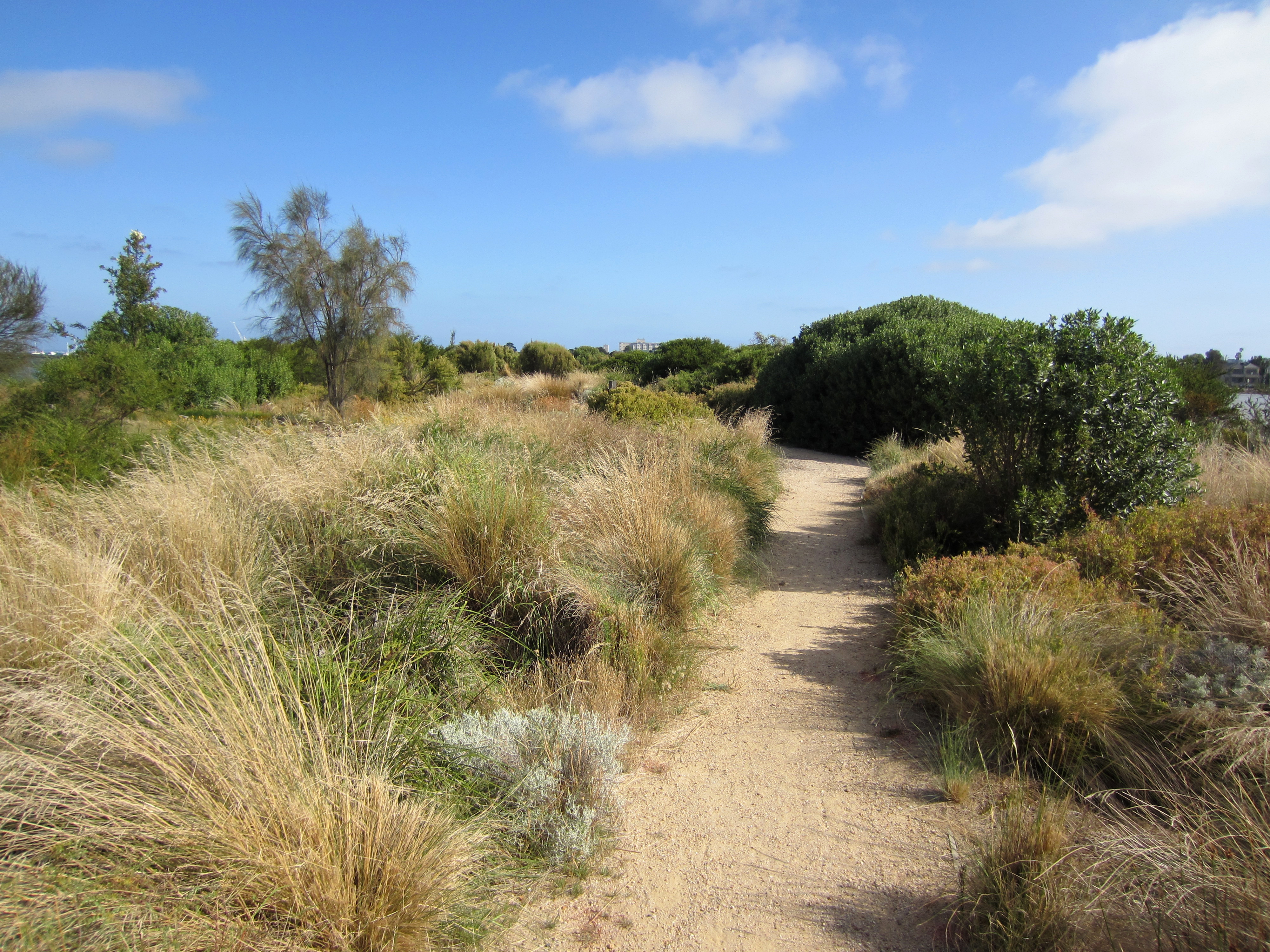 Sandy Point, Newport Victoria